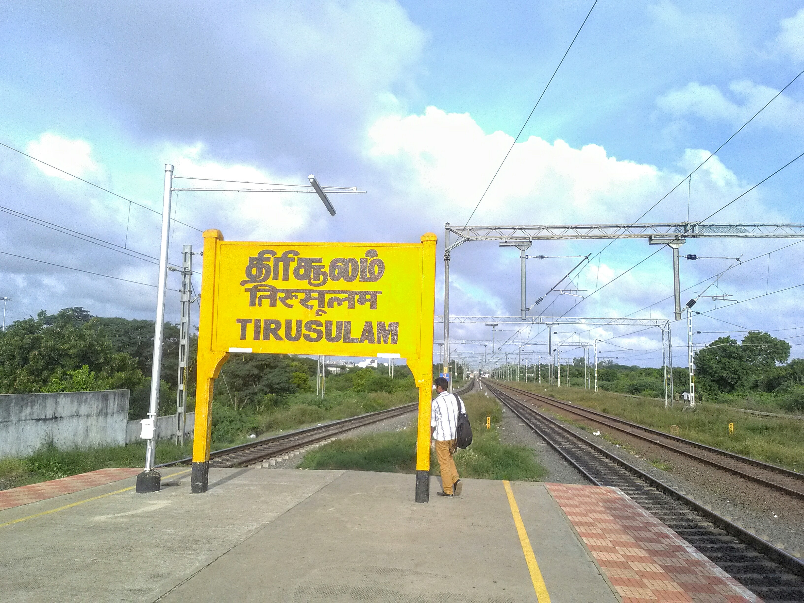 Tirusulam Railway Station Inside ..